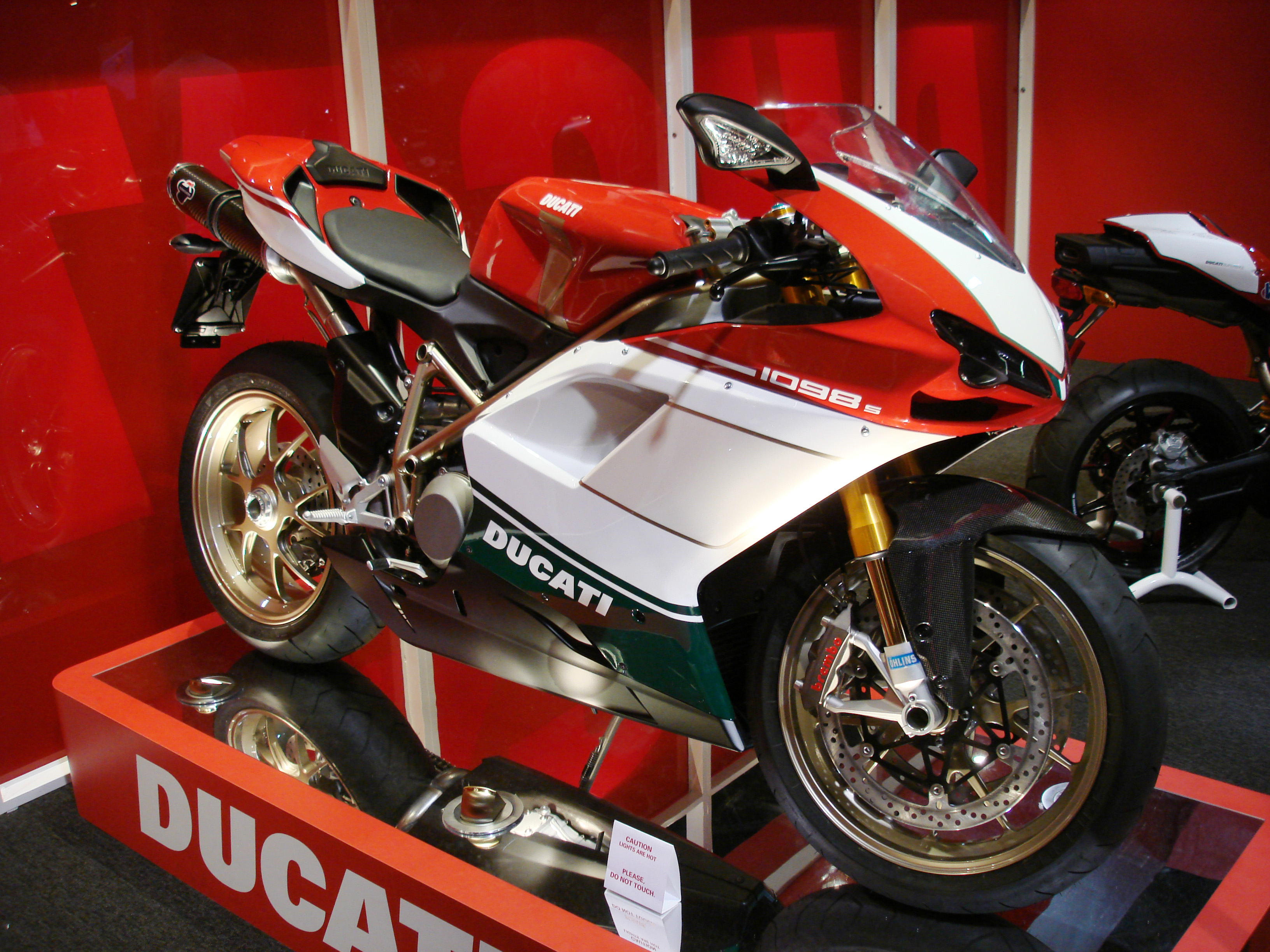 2007 Ducati 1098 S Tricolore on display at the 2006 International Motorcycle Show in Long Beach, CA. Camera used was a Sony Cyber-shot DSC-W100.